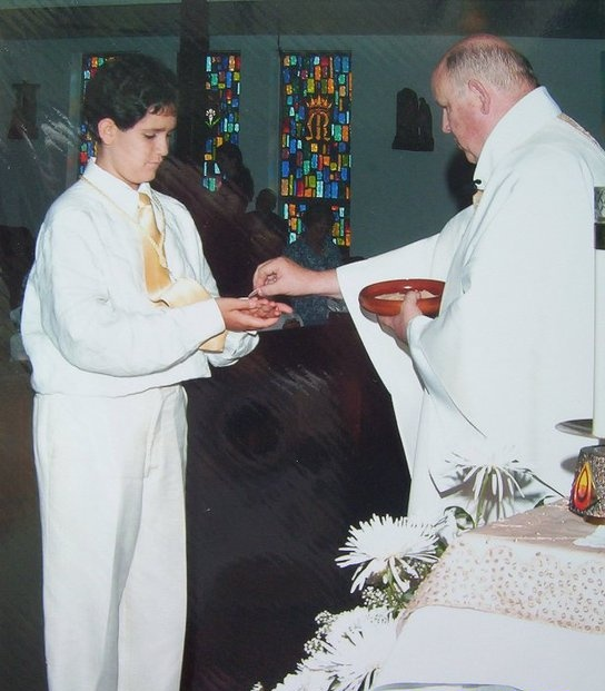 Photo of my son's first communion. Photo done in 2006 at S. Mary Magdalen church of North Miami Beach (Florida). I've done some software modifications